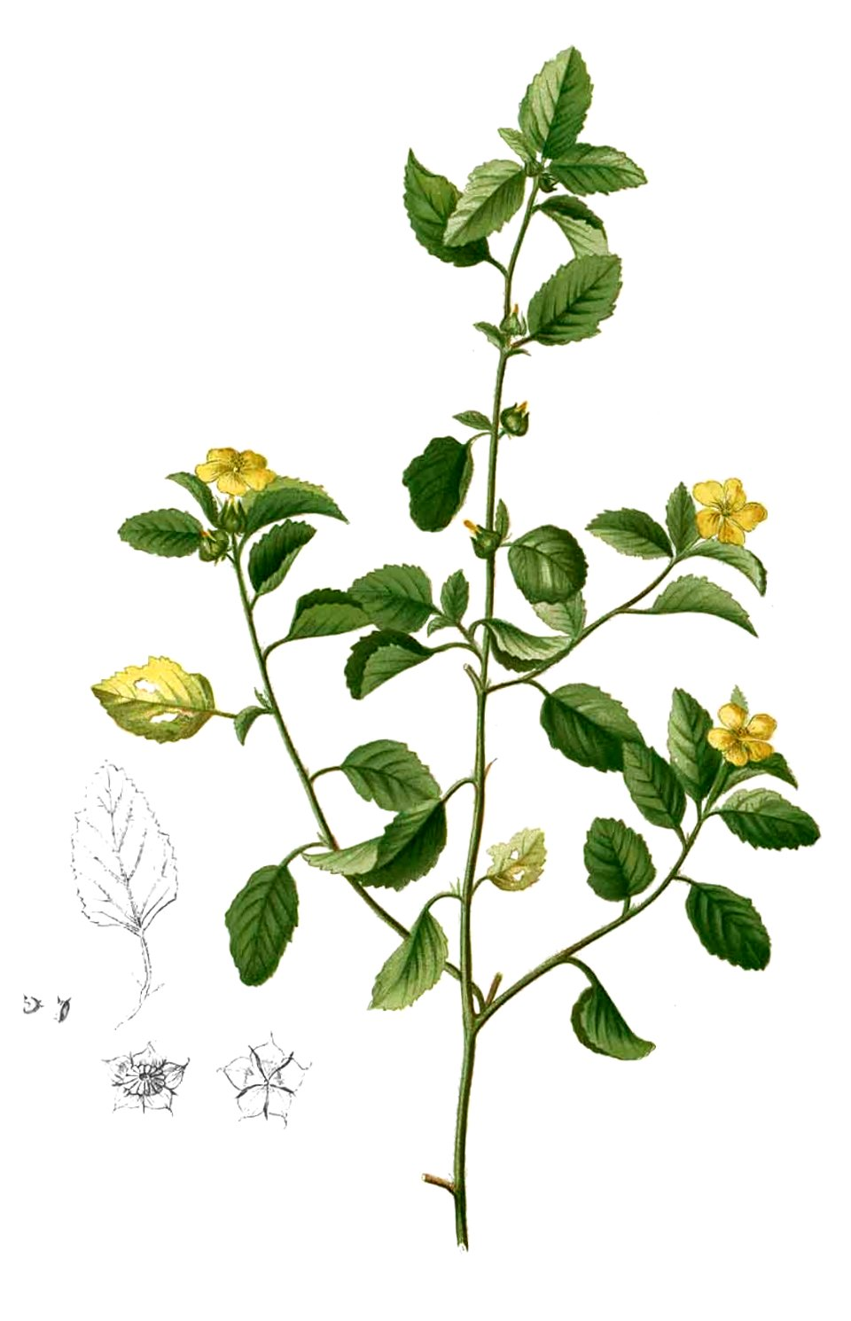 Plate from book